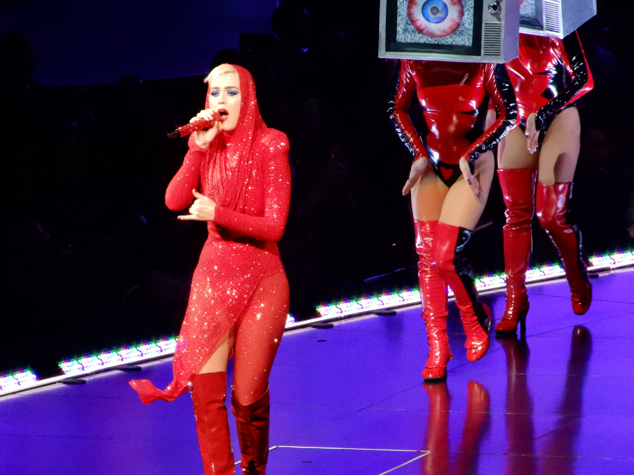 Katy Perry at Madison Square Garden